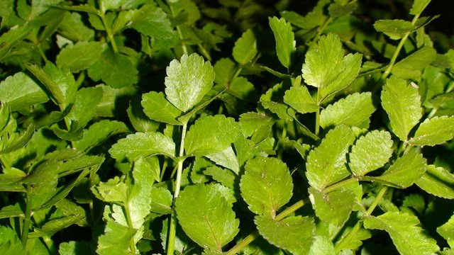 نباتات برية سورية تؤكل